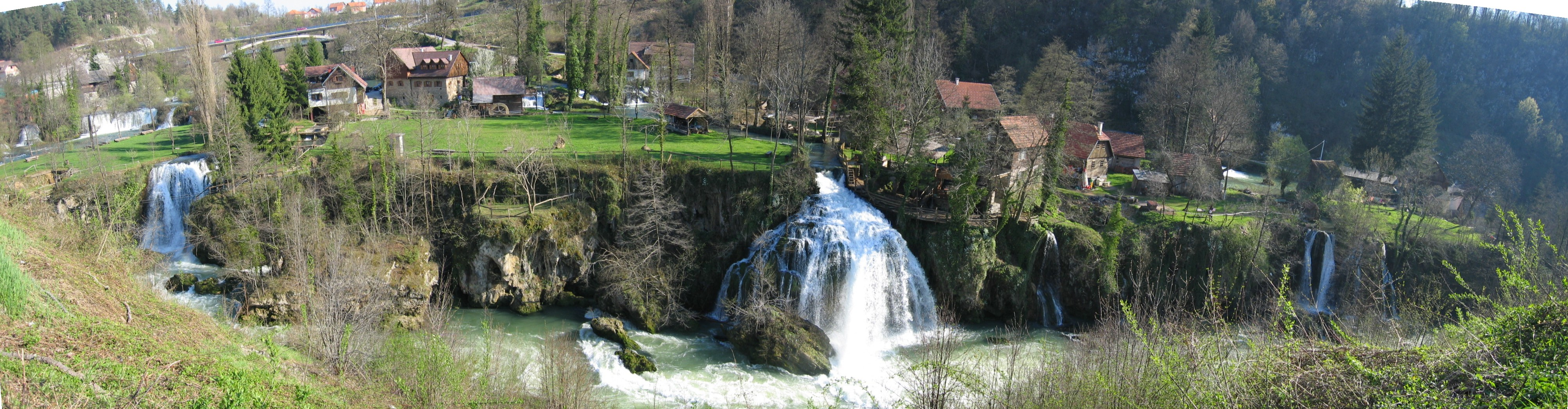 Rastoke, Slunj, Croatia. Panoramic view on Rastoke and Korana river from the north. Picture taken in April 2006.